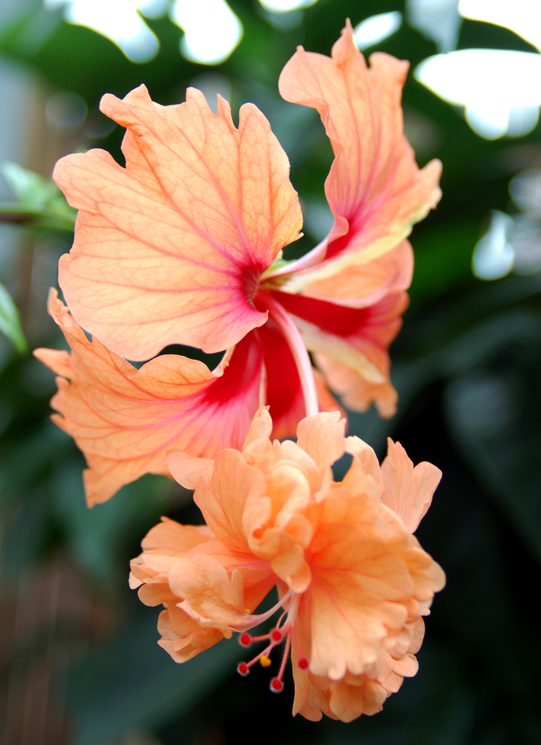 Hibiscus rosa-sinensis 'Orange El Capitolio' - "botanika" Bremen